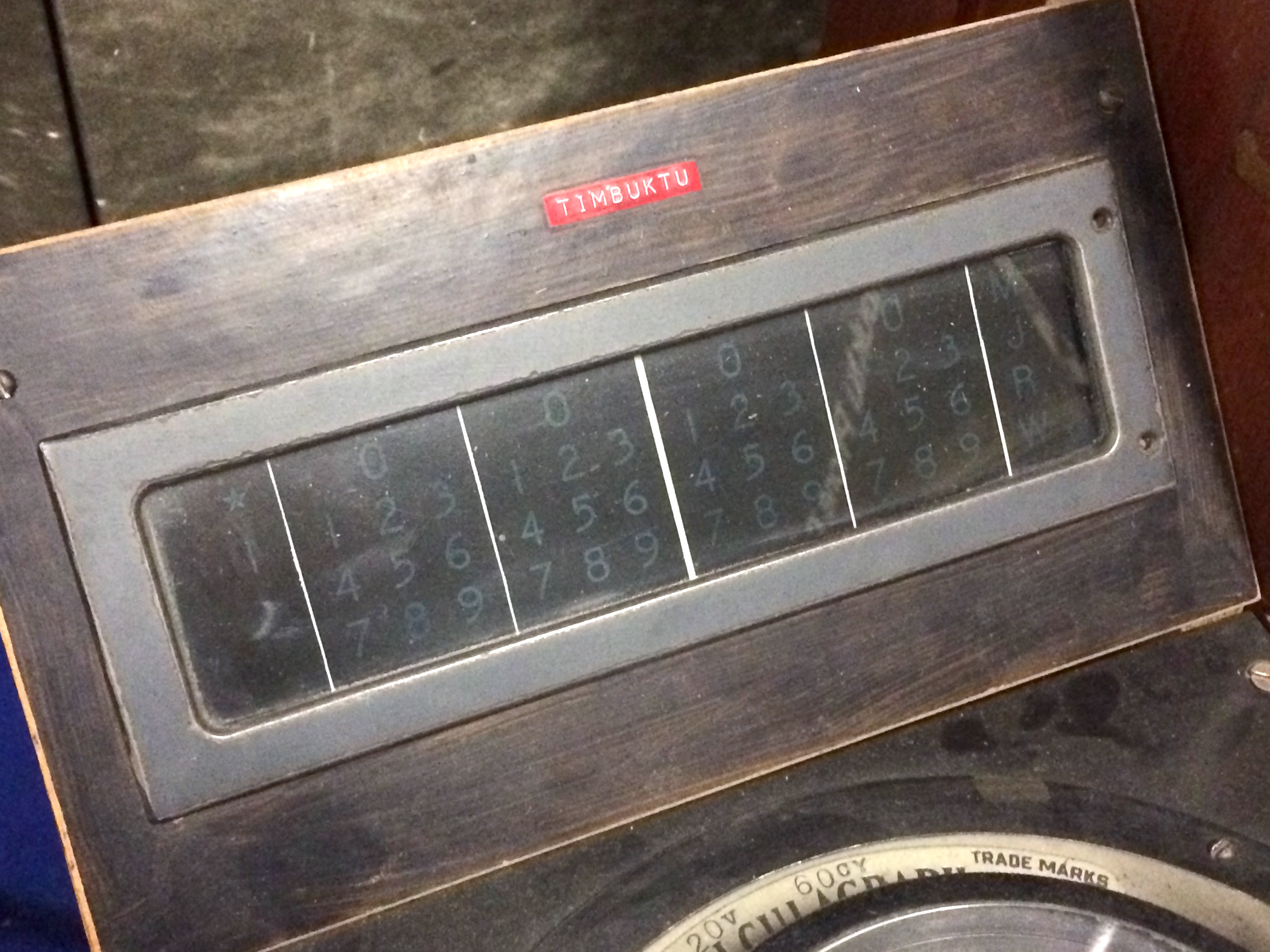 A panel call indicator display. This was used to display the digits a subscriber dialed through a machine switching office to an operator serving a manual exchange. The operator would read the number and complete the call manually by plugging a cord into the appropriate jack on her switchboard. Taken at the Museum of Communications in Seattle, WA.